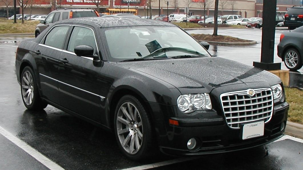 Chrysler 300C photographed in USA.